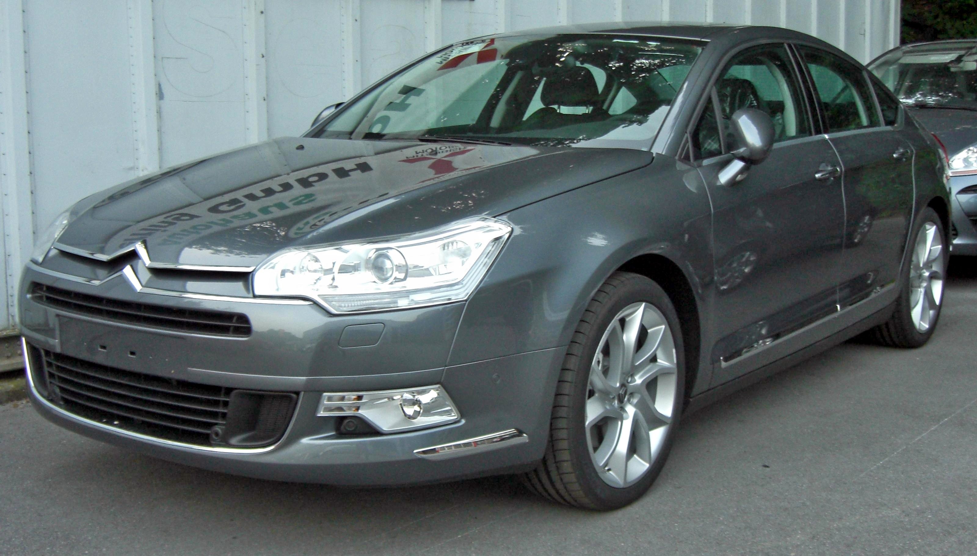 Citroen C5